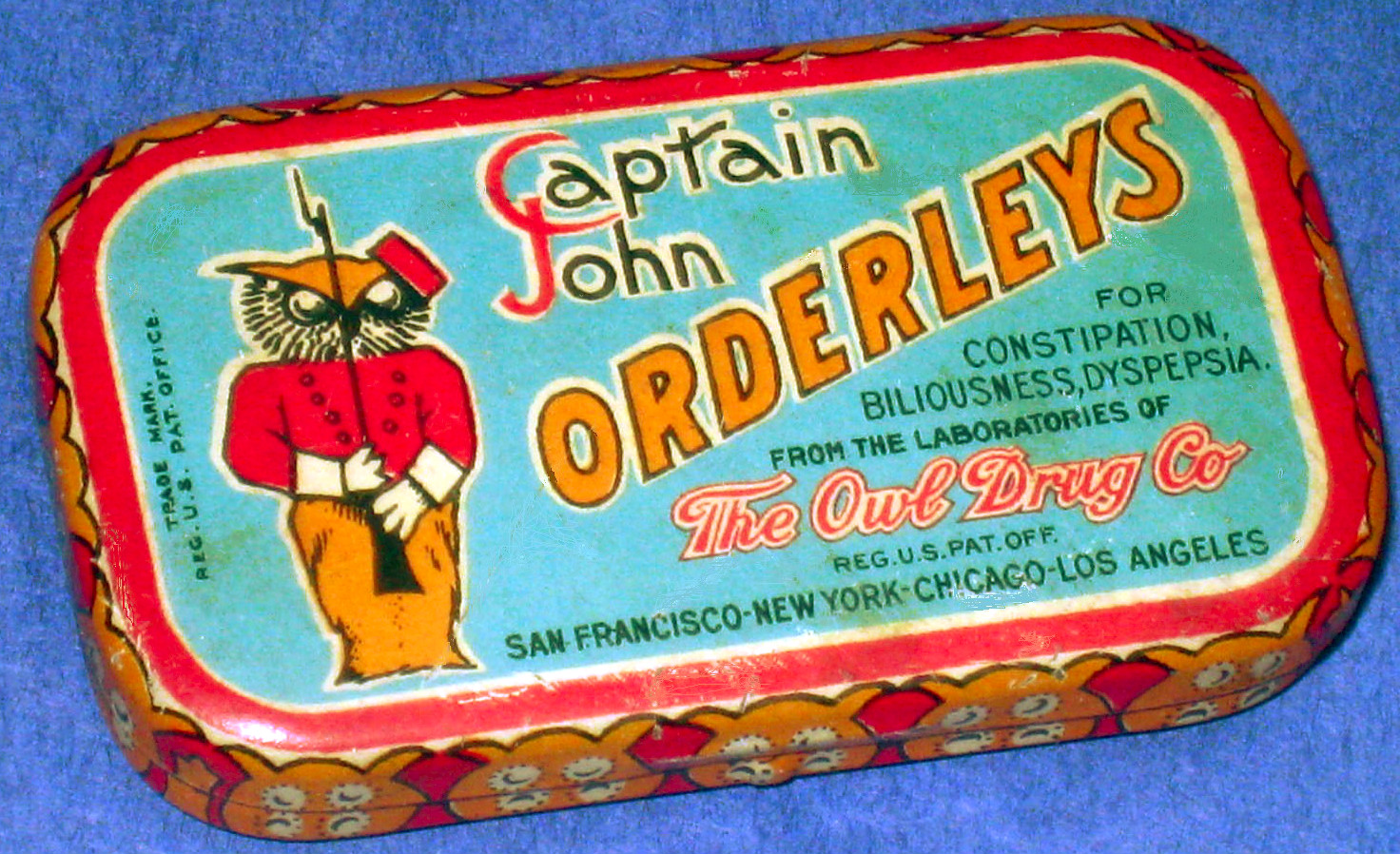 Top of a patent medicine tin. The medicine was Captain John Orderleys and was produced by the Owl Drug Company in San Francisco. At one time, the company had branches throughout the US, but was found primarily on the West Coast. The tin has owl faces around its rim. This version of the medicine was prior to the US Food and Drug Act of 1906; a toxic substance is listed as one of its ingredients. The post-1906 version is without the toxic substance, has different wording re: what the medicine was to be used for and notes that this formulation was post-Food and Drug Act in 1906.